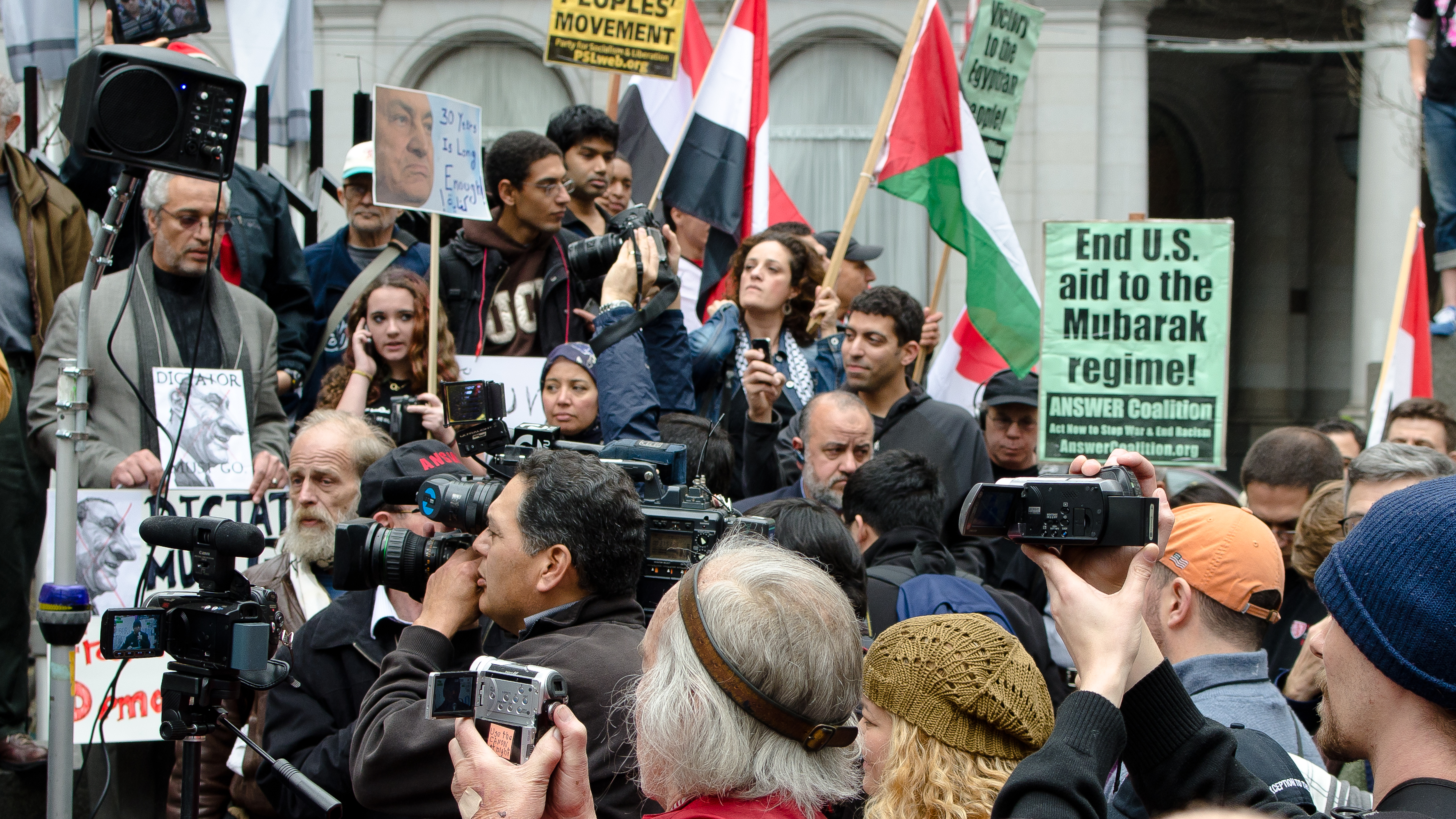 Egypt revolution